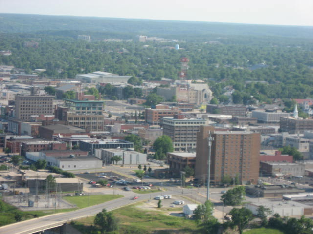 Aerial view of Downtown Joplin, MO, USA